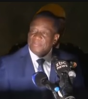 Emmerson Mnangagwa Zimbabwe's new president Emmerson Mnangagwa speech